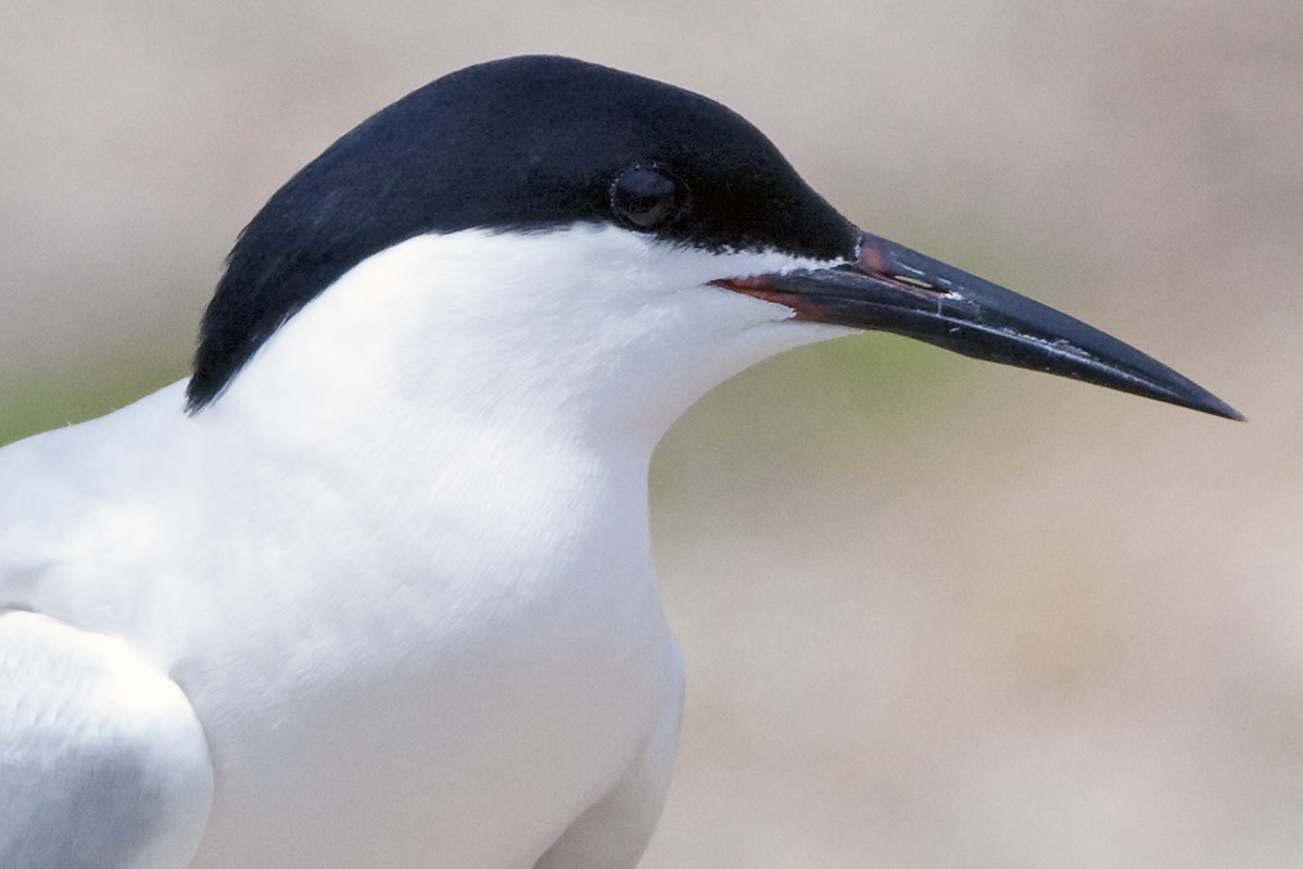 Roseate tern portrait. Petit Manan Island, Maine Coastal Islands NWR. Kirk Rogers/USFWS.